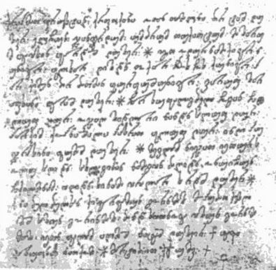 An Azeri poem by Sayat-Nova written in Georgian script.